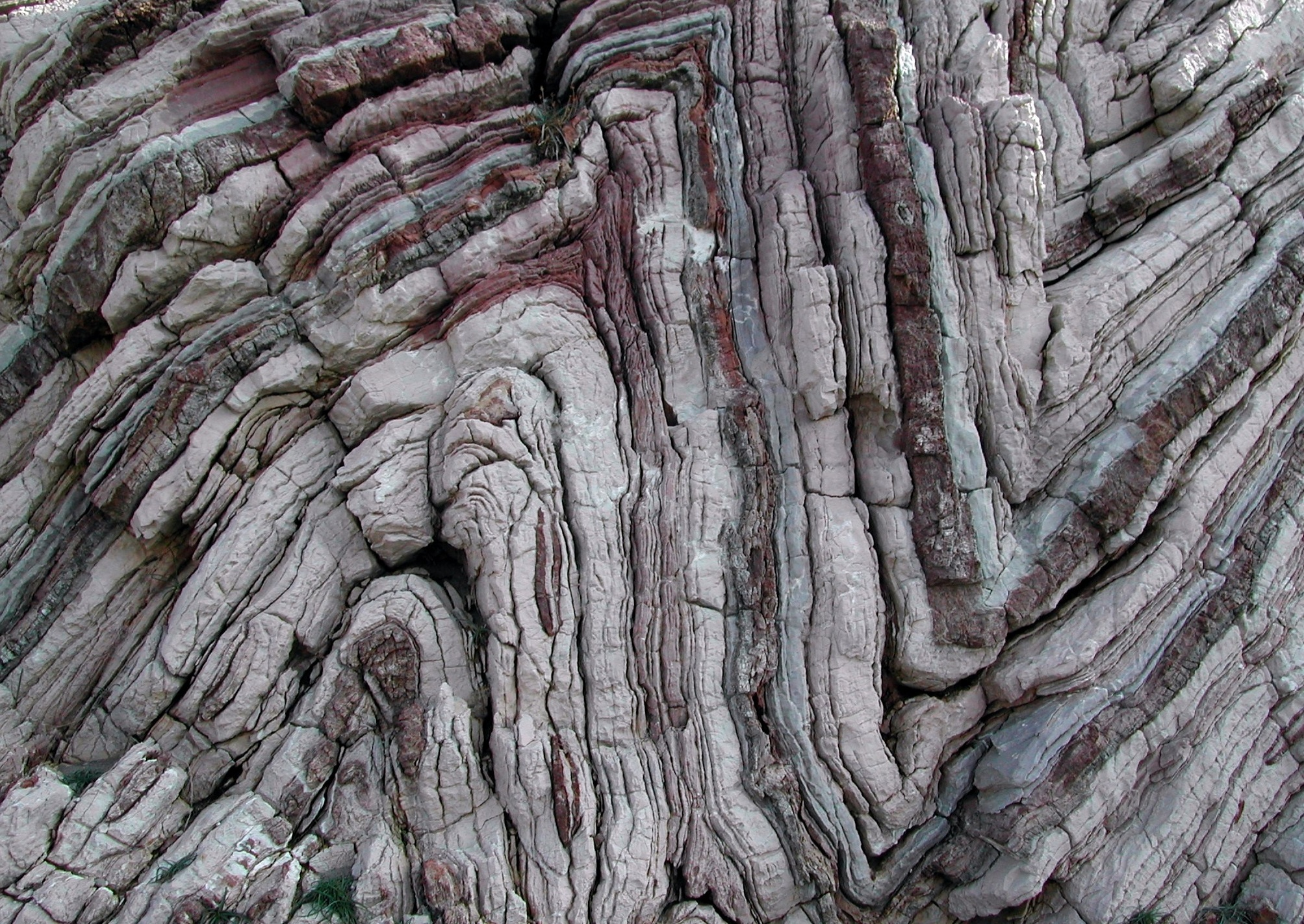 They are one of the most photographed geological feature in Crete (Grece) Location: Ágios Pávlos in the south of Crete, Greece